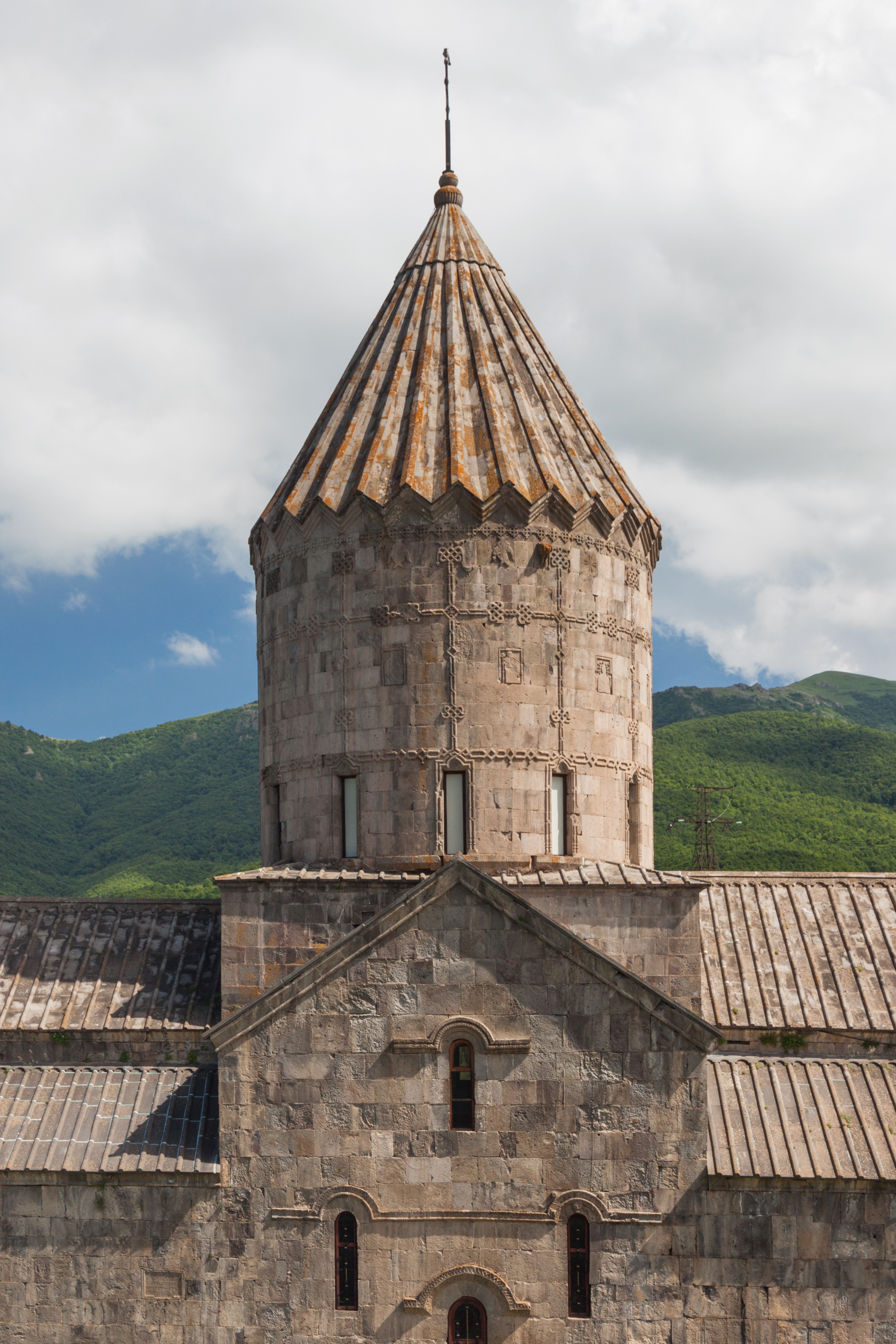 Sts. Peter and Paul Church (Surb Poghos Petros). Tatev monastery. Tatev, Syunik Province, Armenia.